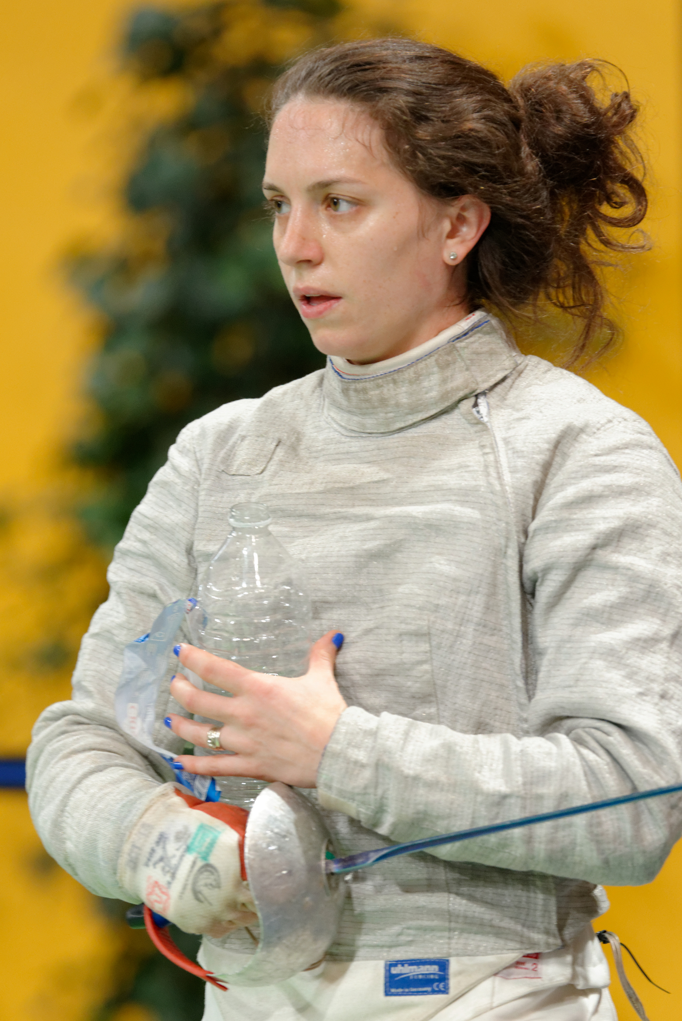 Panama's Eileen Grench at the 2014–15 Orléans World Cup in women's sabre.